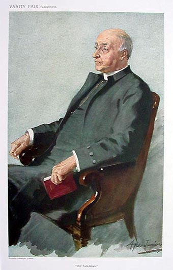 Caricature of Reverend Canon Edgar Sheppard D.D.. Caption read "the Sub-Dean". Brief biography read "The Sub Dean of the Chapels Royal, educated at St. John's Oxford, curate at Marlow and Hornsey. Later Cannon of St. Georges Windsor 1907. ' He was a good singer and considerable musical talents". He later served as Deputy Clerk of the Closet.